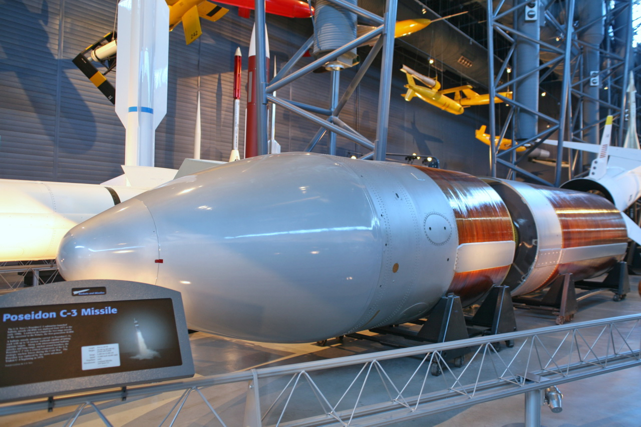 Poseidon C-3 Submarine-launched Missile, Steven F. Udvar-Hazy Center